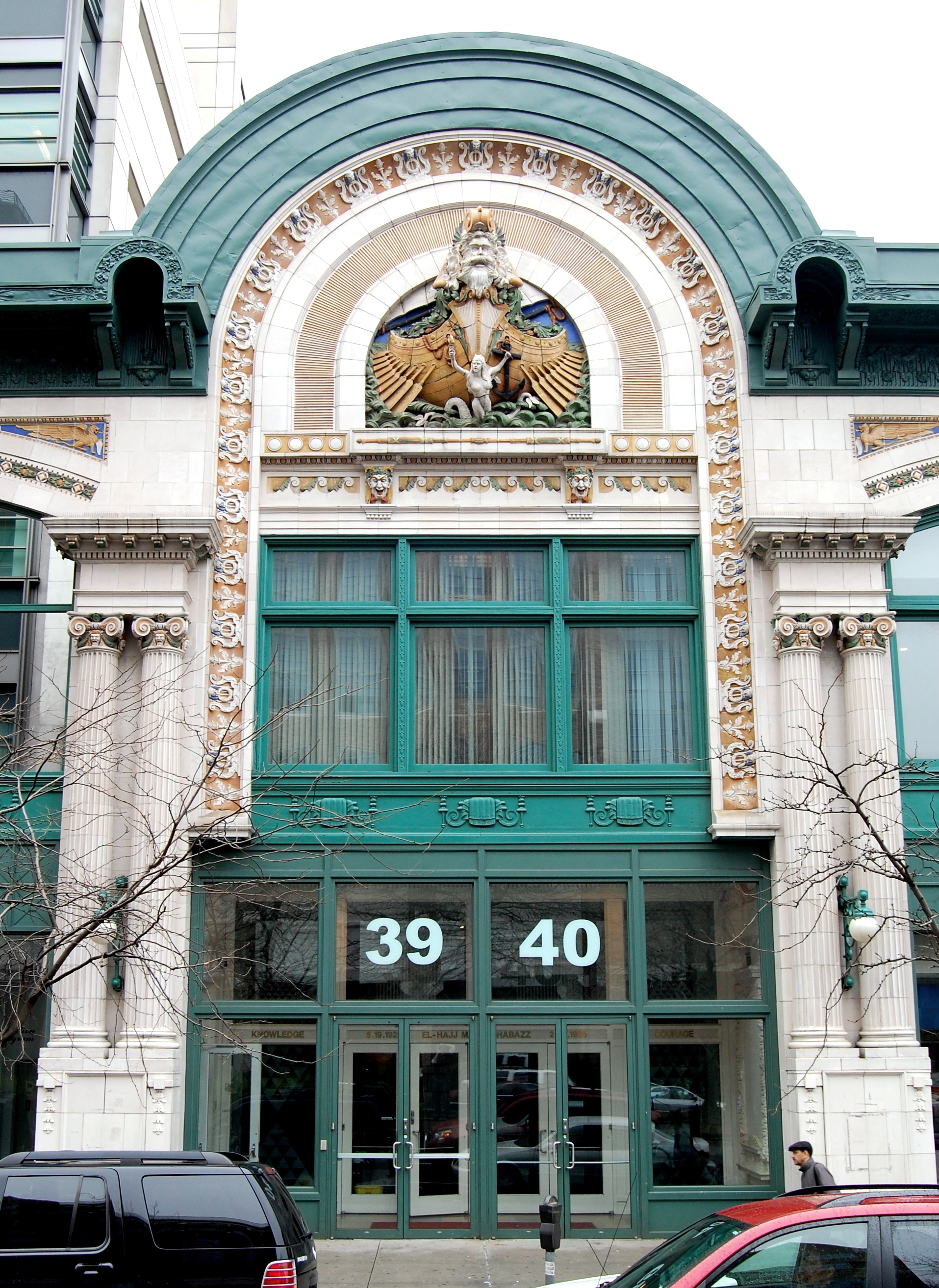 This photo is of Wikipedia Takes Manhattan location code 2, Audubon Ballroom.